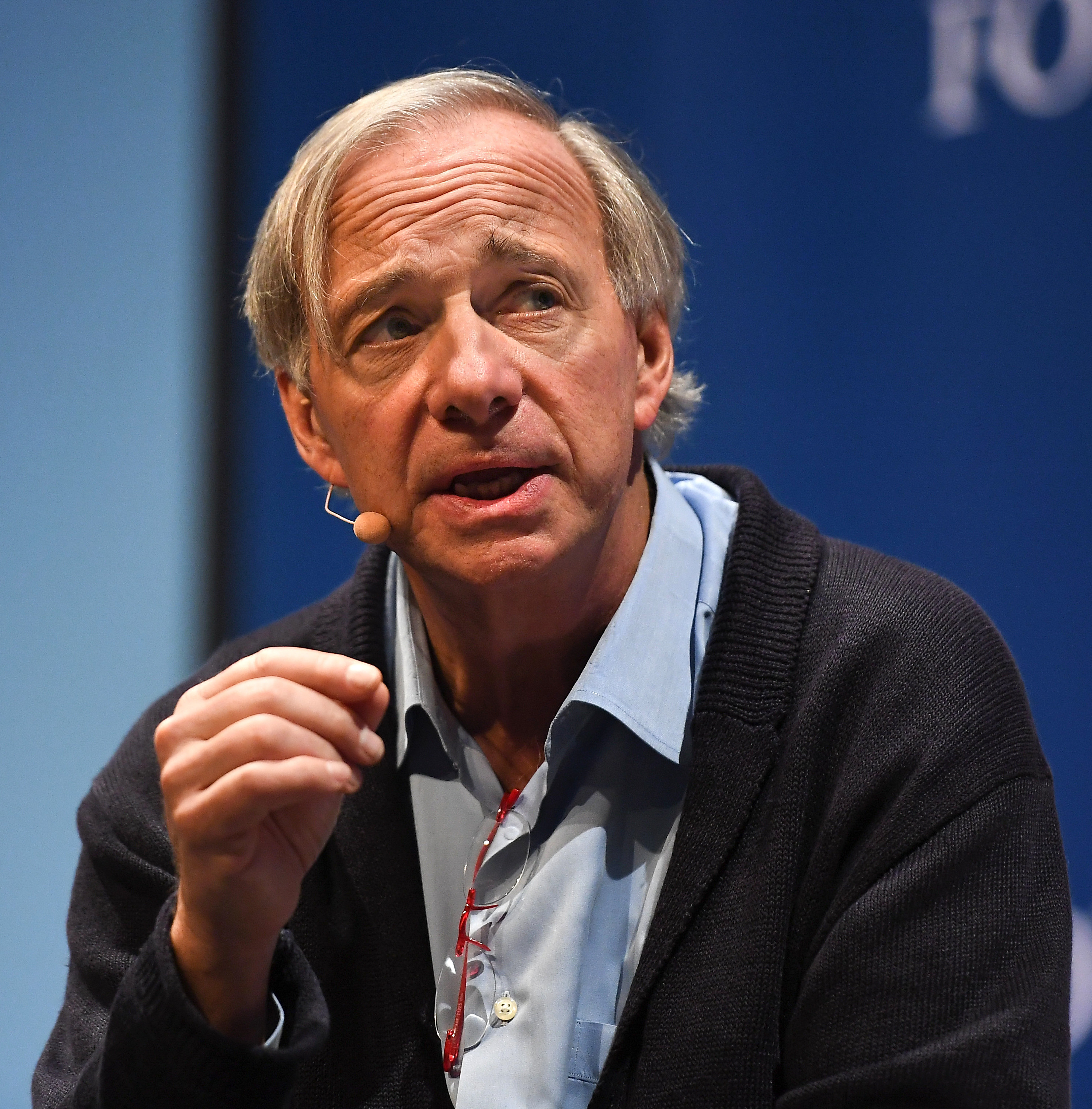 7 November 2018; Ray Dalio, Founder, Co-Chief Investment Officer & Co-Chairman, Bridgewater Associates on the Forum Stage during day two of Web Summit 2018 at the Altice Arena in Lisbon, Portugal. Photo by Harry Murphy/Web Summit via Sportsfile